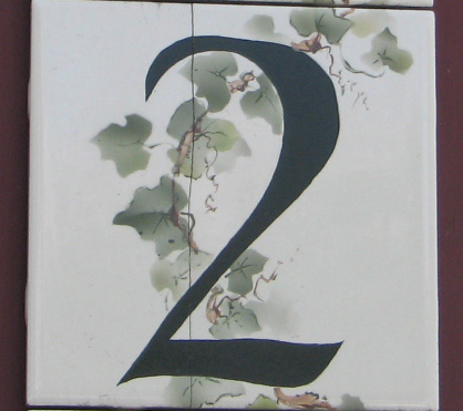 A picture from a number two decorated.